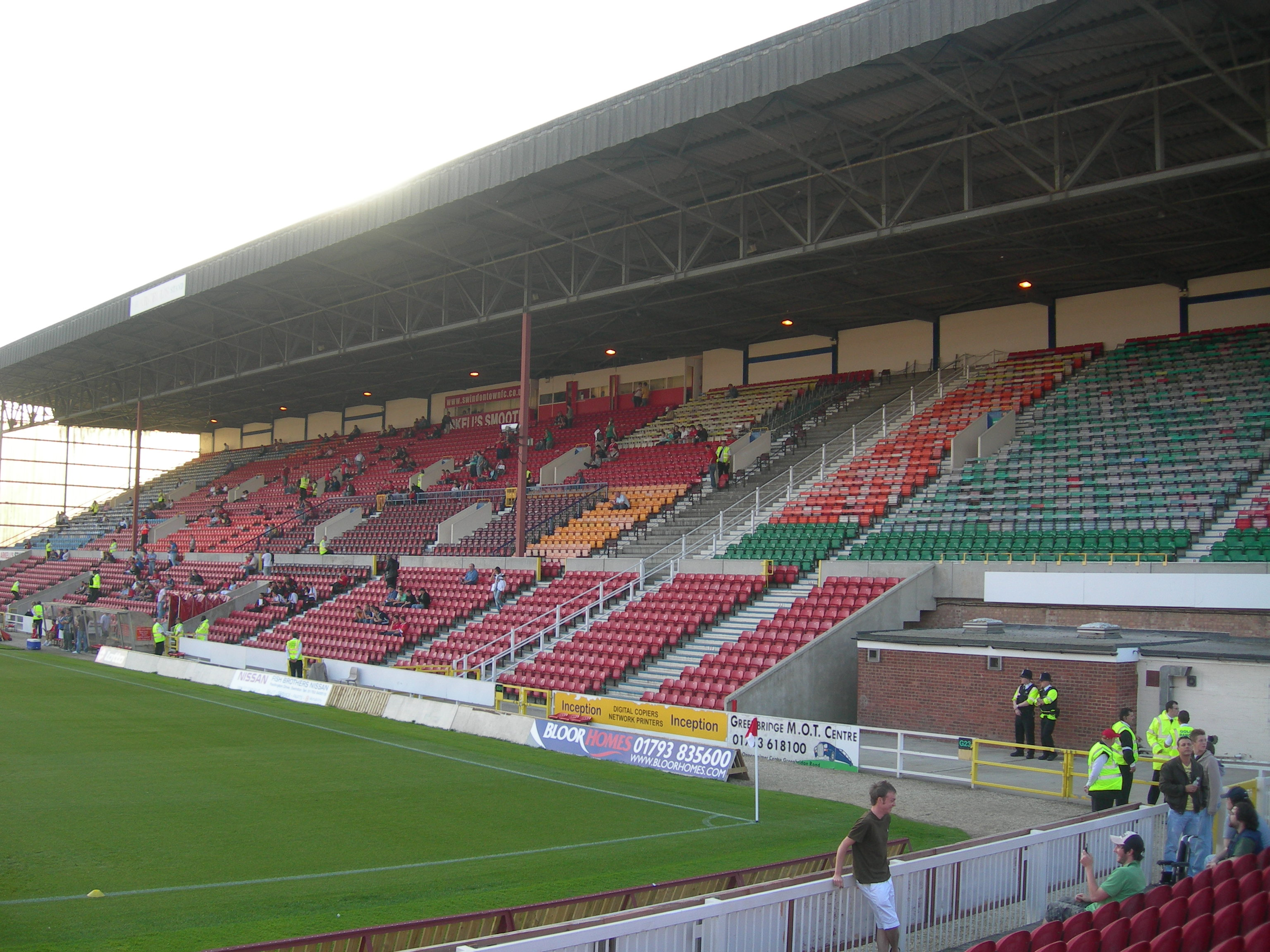 Arkells stand at the county ground, Swindon, before a game vs Bristol City in July 2007. Own work